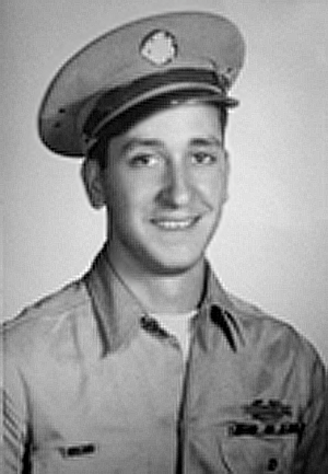 Marion Trozzolo Military Pic